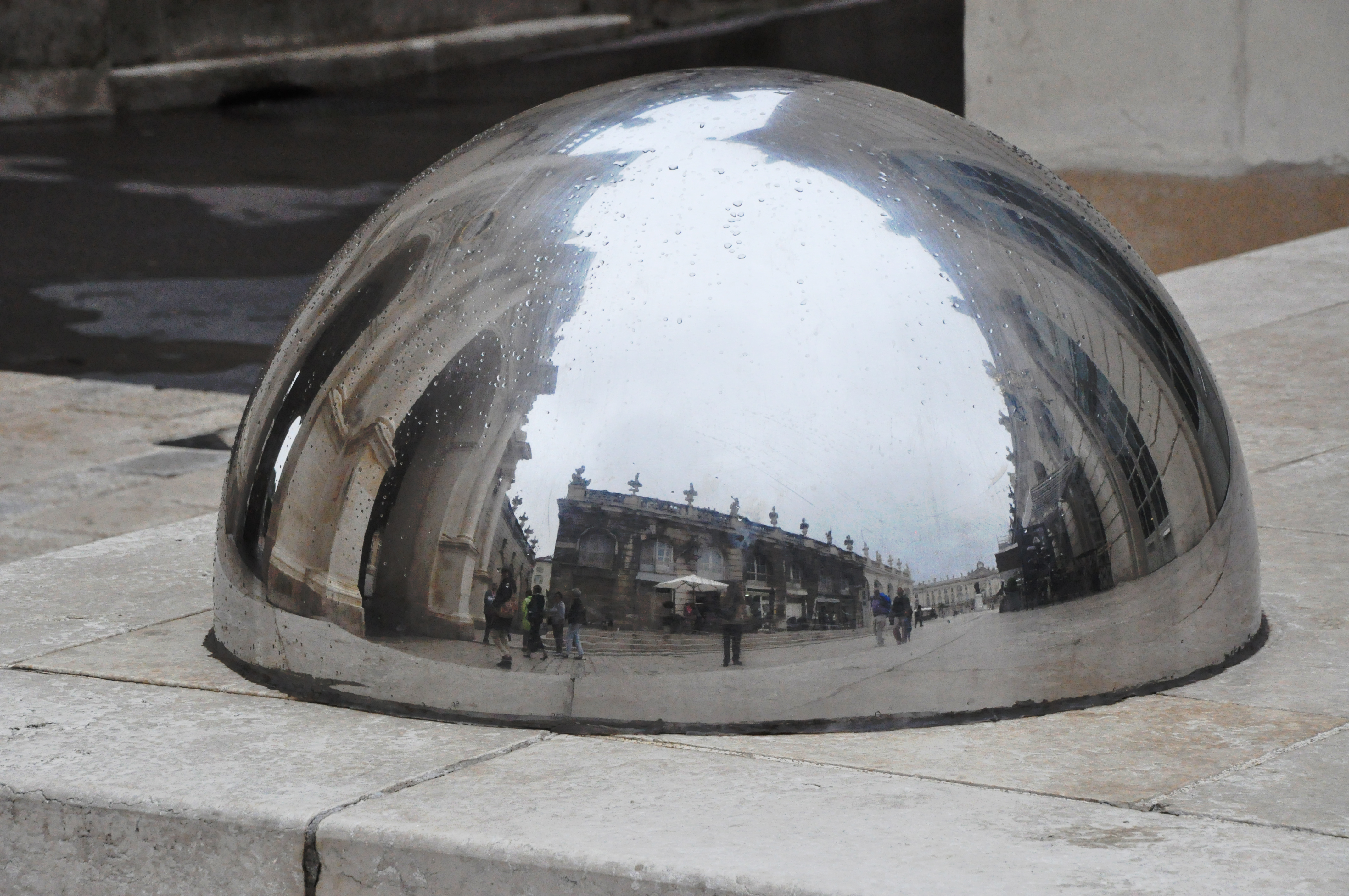 Convex mirror in Nancy (France), reflecting Stanislas square.